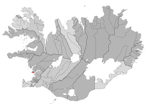 Based on Municipalities of Iceland.png.